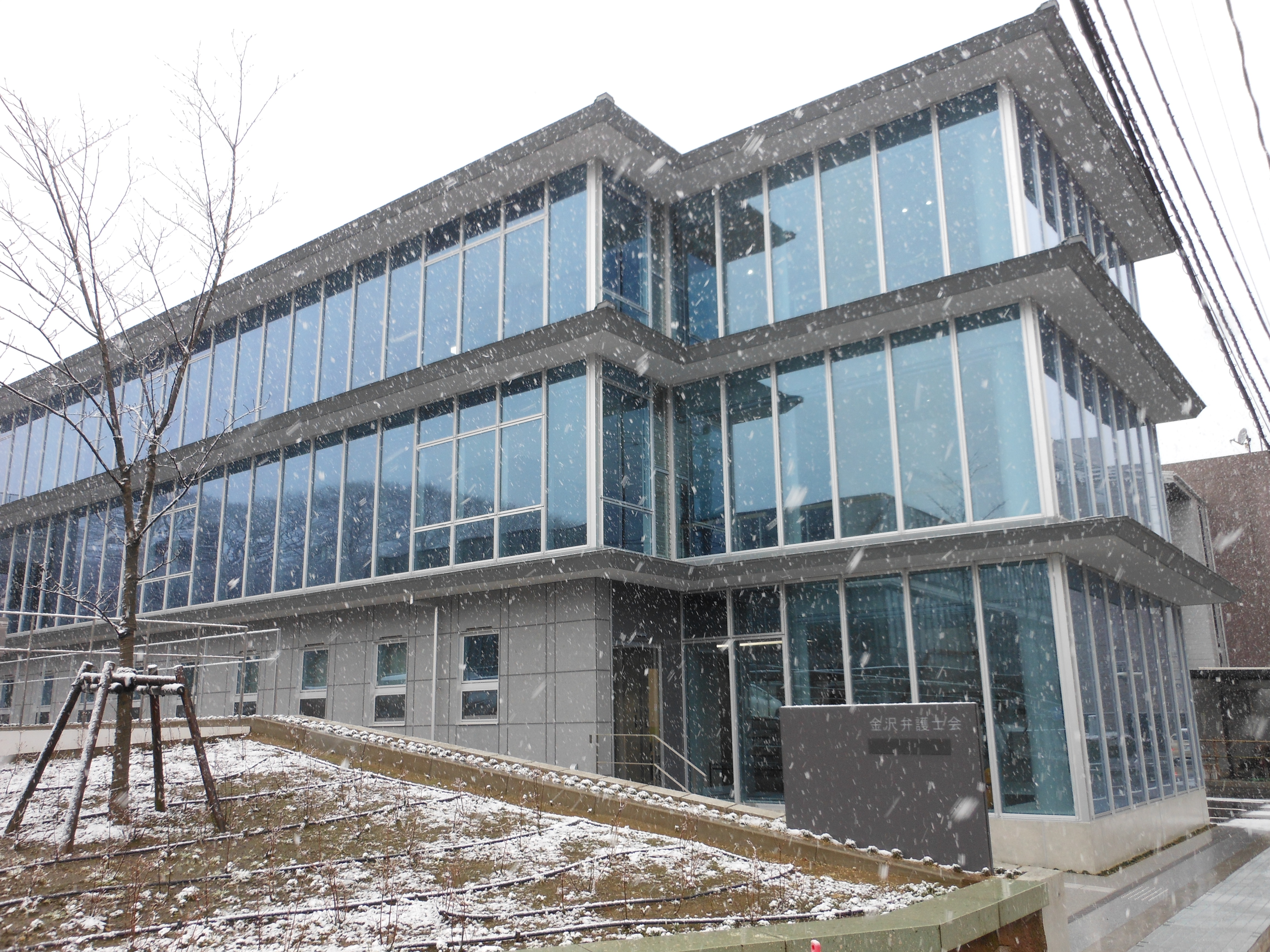 This is the building for Kanazawa Bar Association in Kanazawa, Ishikawa, Japan.